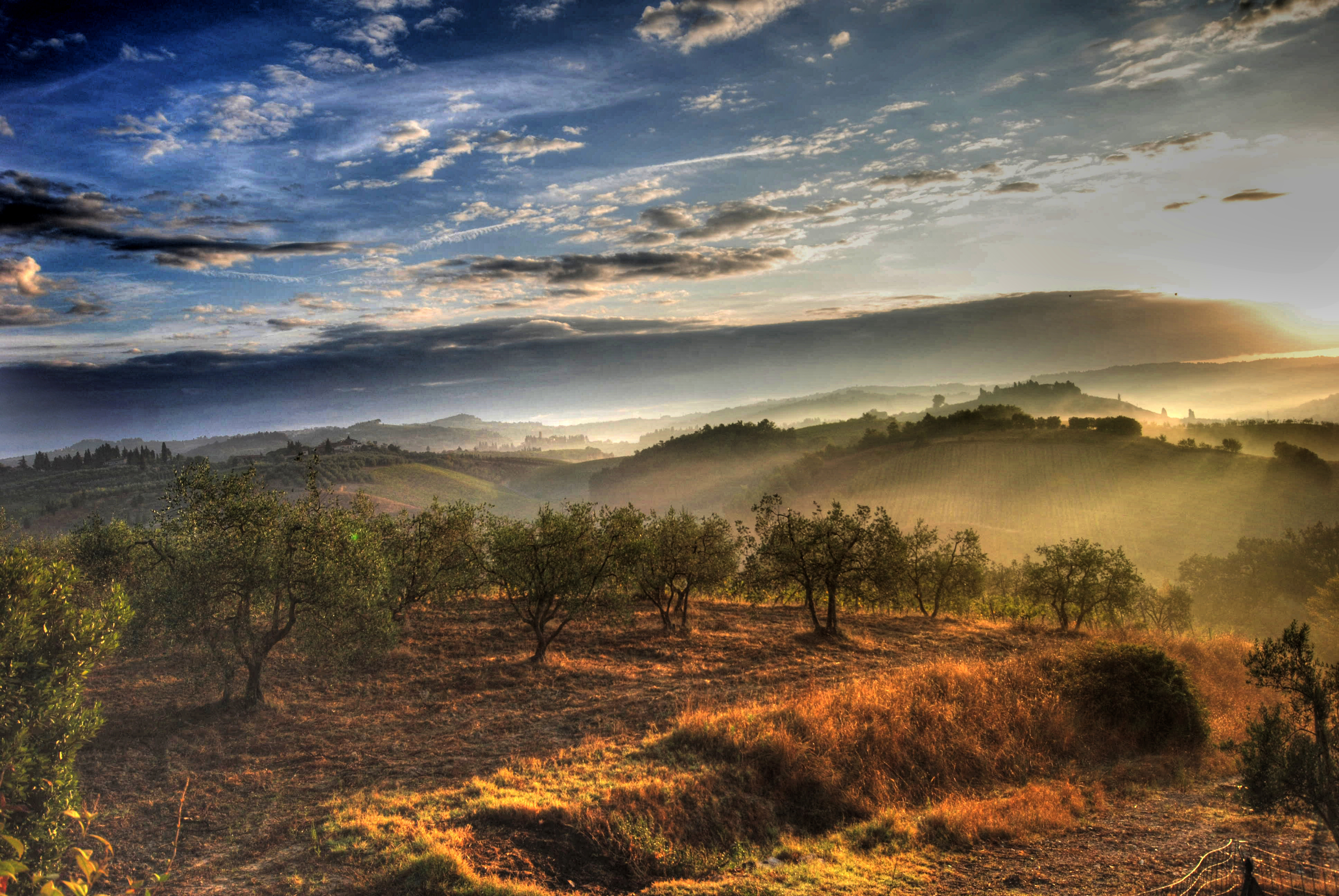 Grapevines in the Chianti wine zone of Tuscany in Central Italy